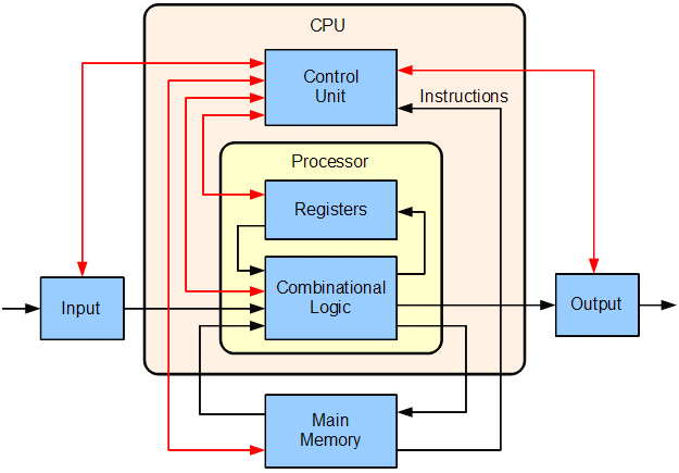 Block diagram of a basic computer with uniprocessor CPU. Black lines indicate data flow, whereas red lines indicate control flow. Arrows indicate the direction of flow.